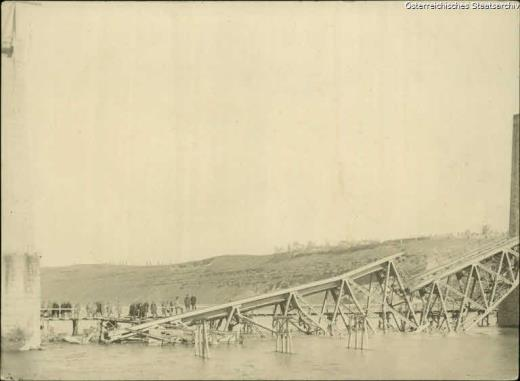 Mangled remains of the railway bridge over the Dniester River. The bridge was one of many destroyed by the Soviet armies to impede German advances.